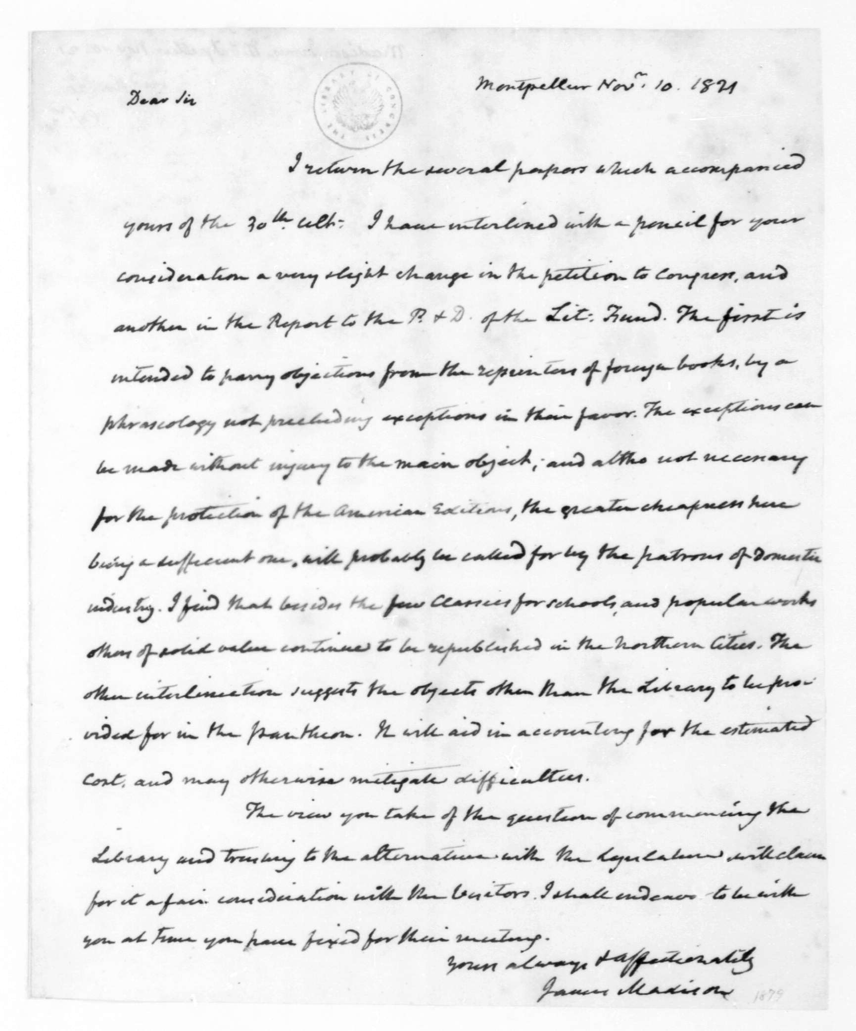 Letter from James Madison to Thomas Jefferson, 10 November 1821, regarding books